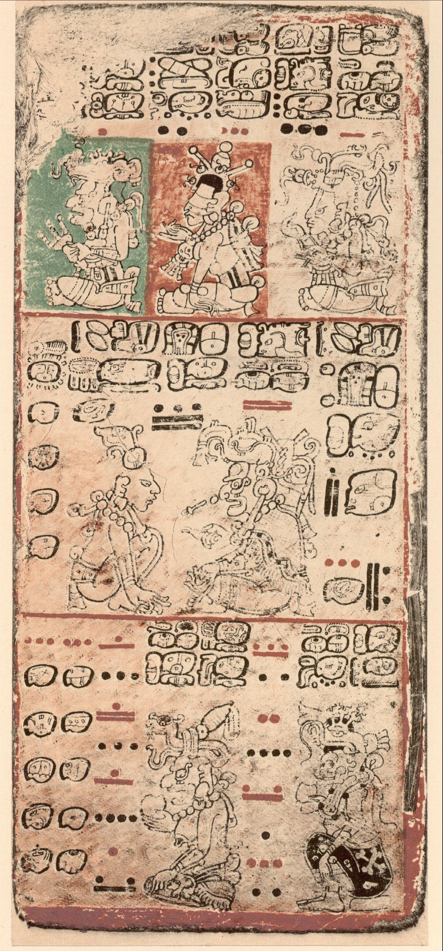 image from the Dresden Codex (page 9). Adapted from the 1880 edition by Förstemann.